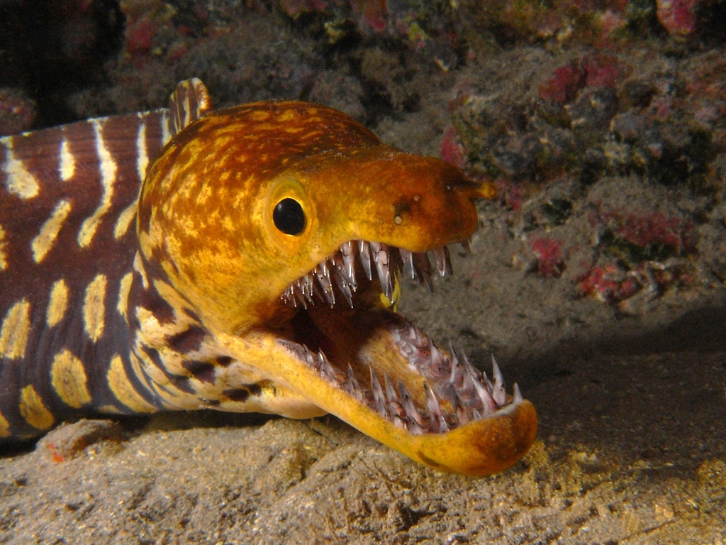 Enchelycore anatina - Fangtooth moray / Picopato / Murène tigrée, Tenerife.